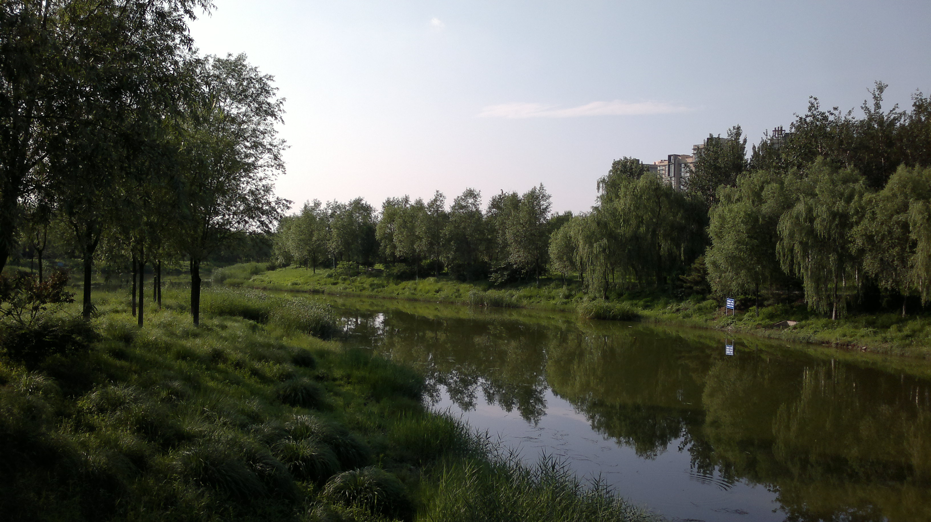 The landscape of Qing Yang River at summer time